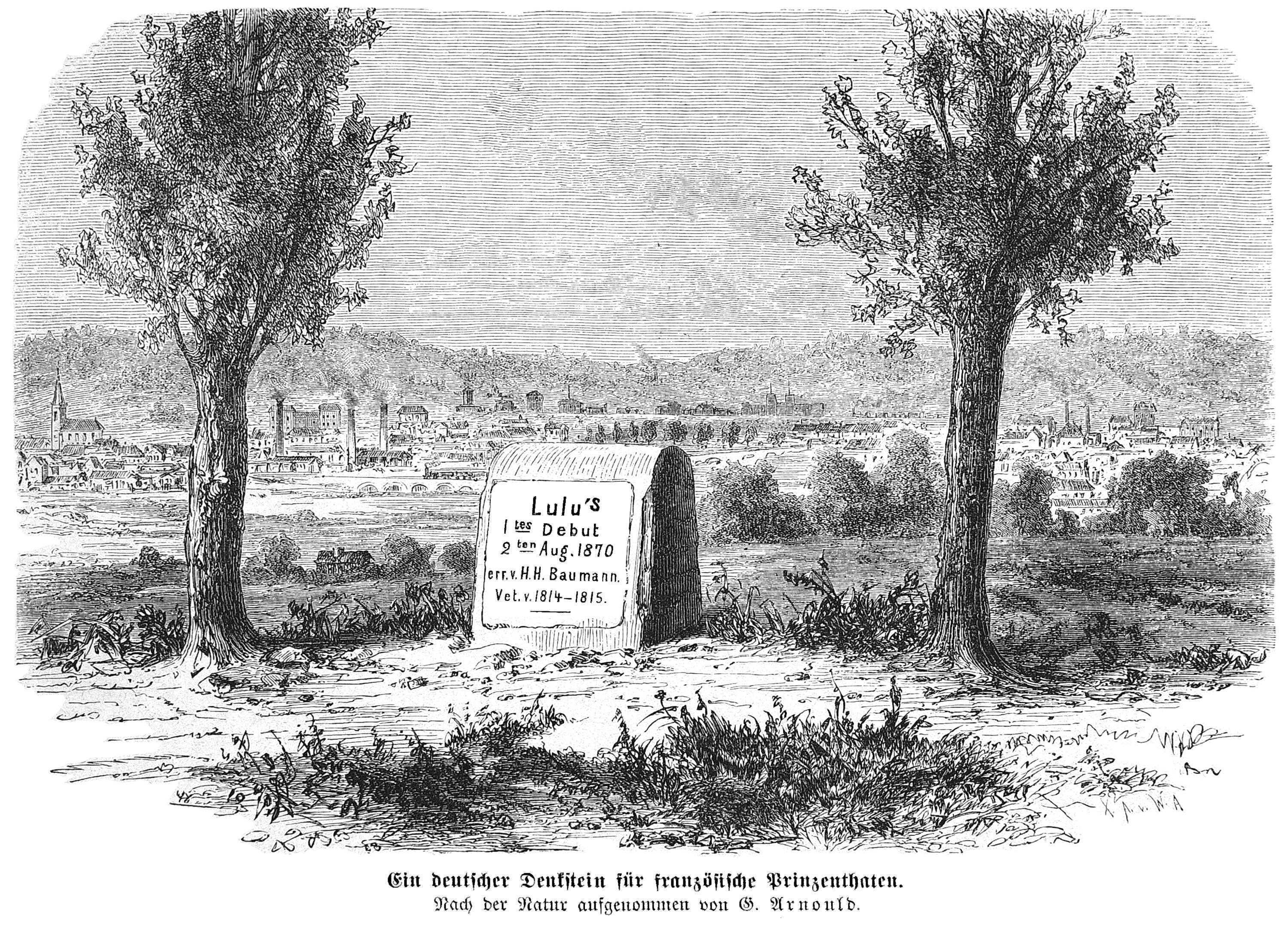 no caption